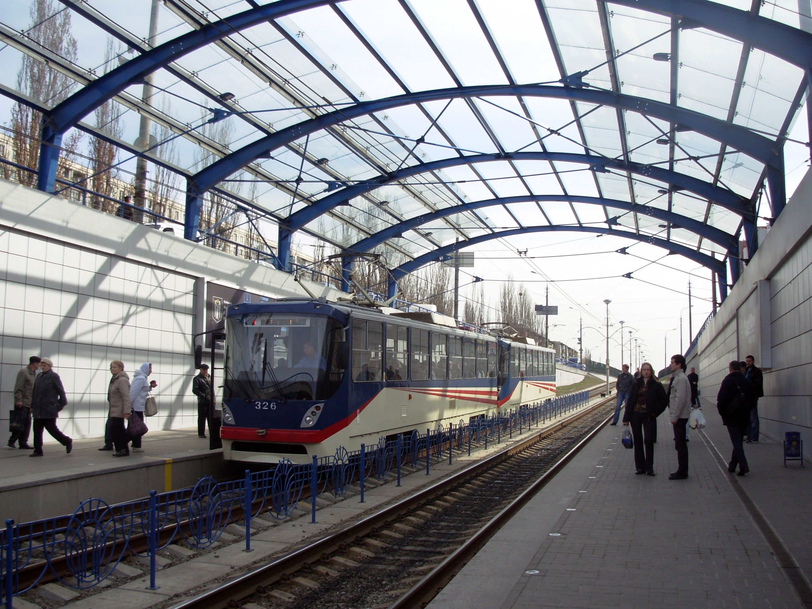 Hnata Yury Station of Kyiv Fast Tram after renovation, 2011